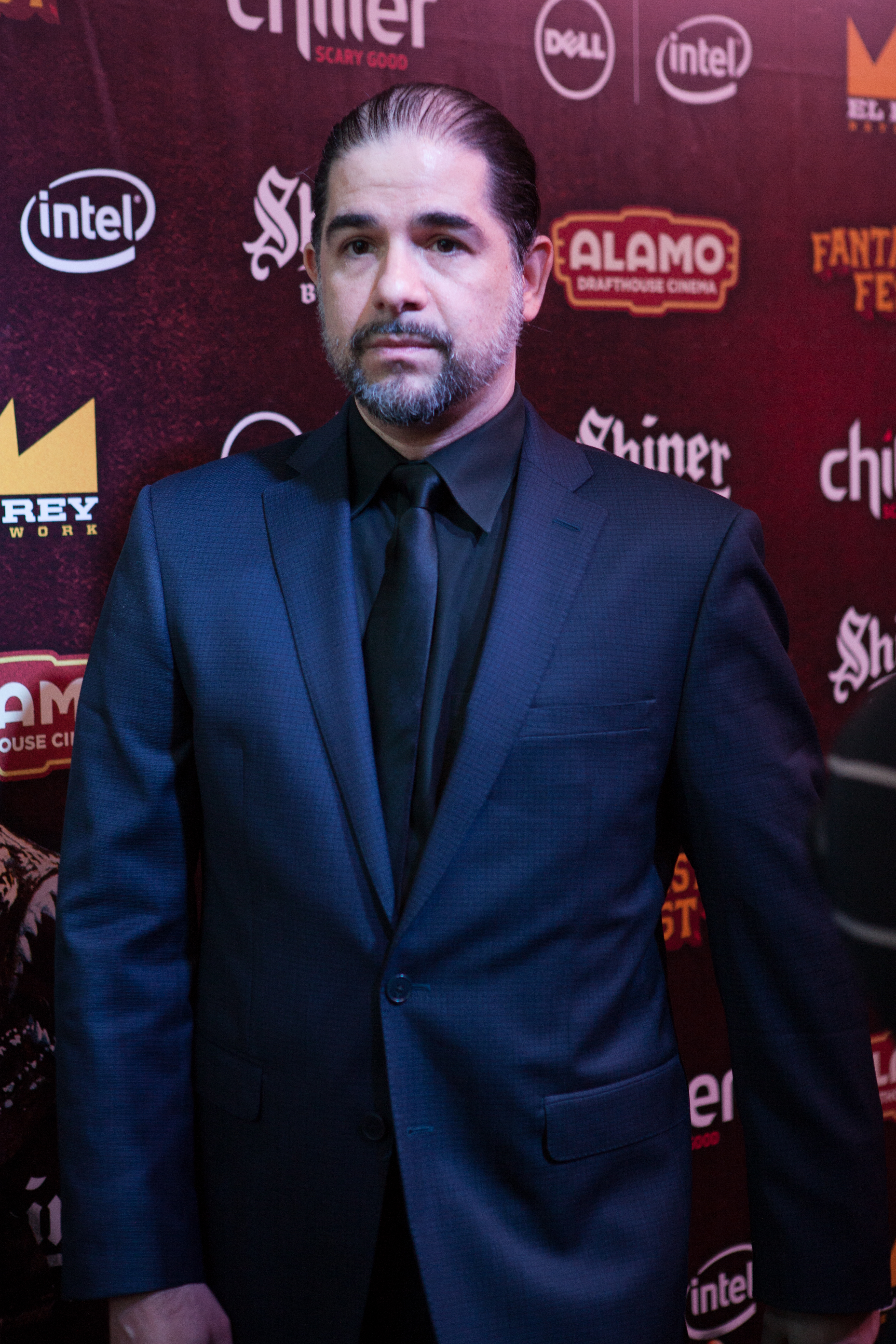 Red Carpet, BONE TOMAHAWK, Fantastic Fest 2015-1947.jpg